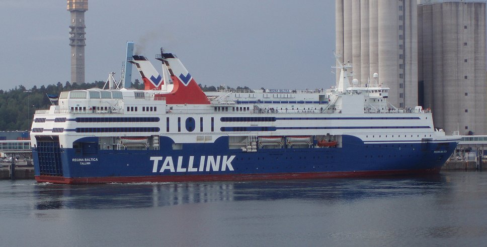 MF Regina Baltica in Stockholm. IMO Number: 7827225 MMSI Number: 275054000 Callsign: YLBP Length: 145 m Beam: 25 m